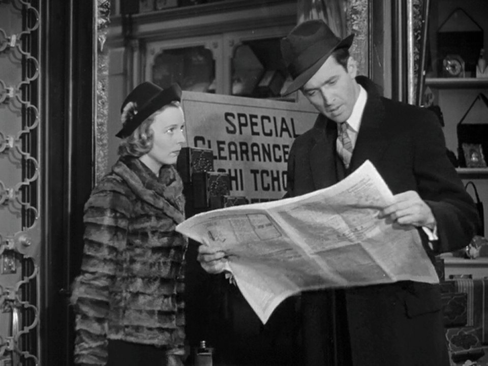 Cropped screenshot of the trailer for the film The Shop Around the Corner